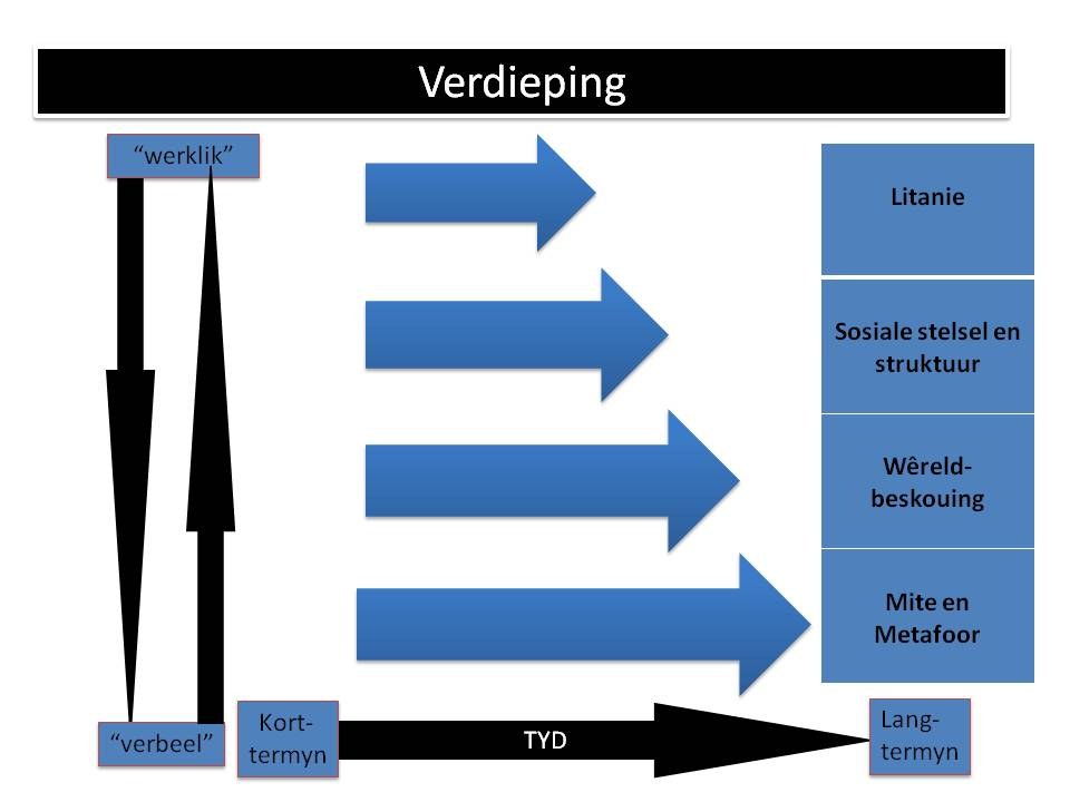 Graphic presentation of Sohail Inayatullah’s causal layered analysis (CLA)